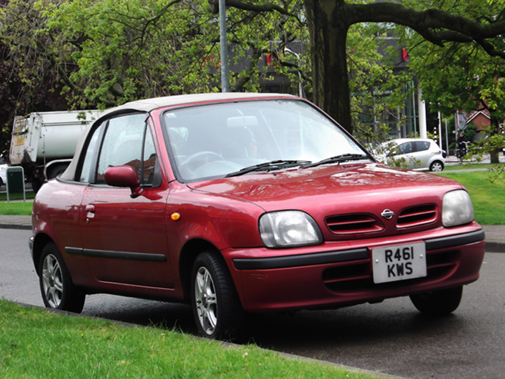 Nissan March Convertible